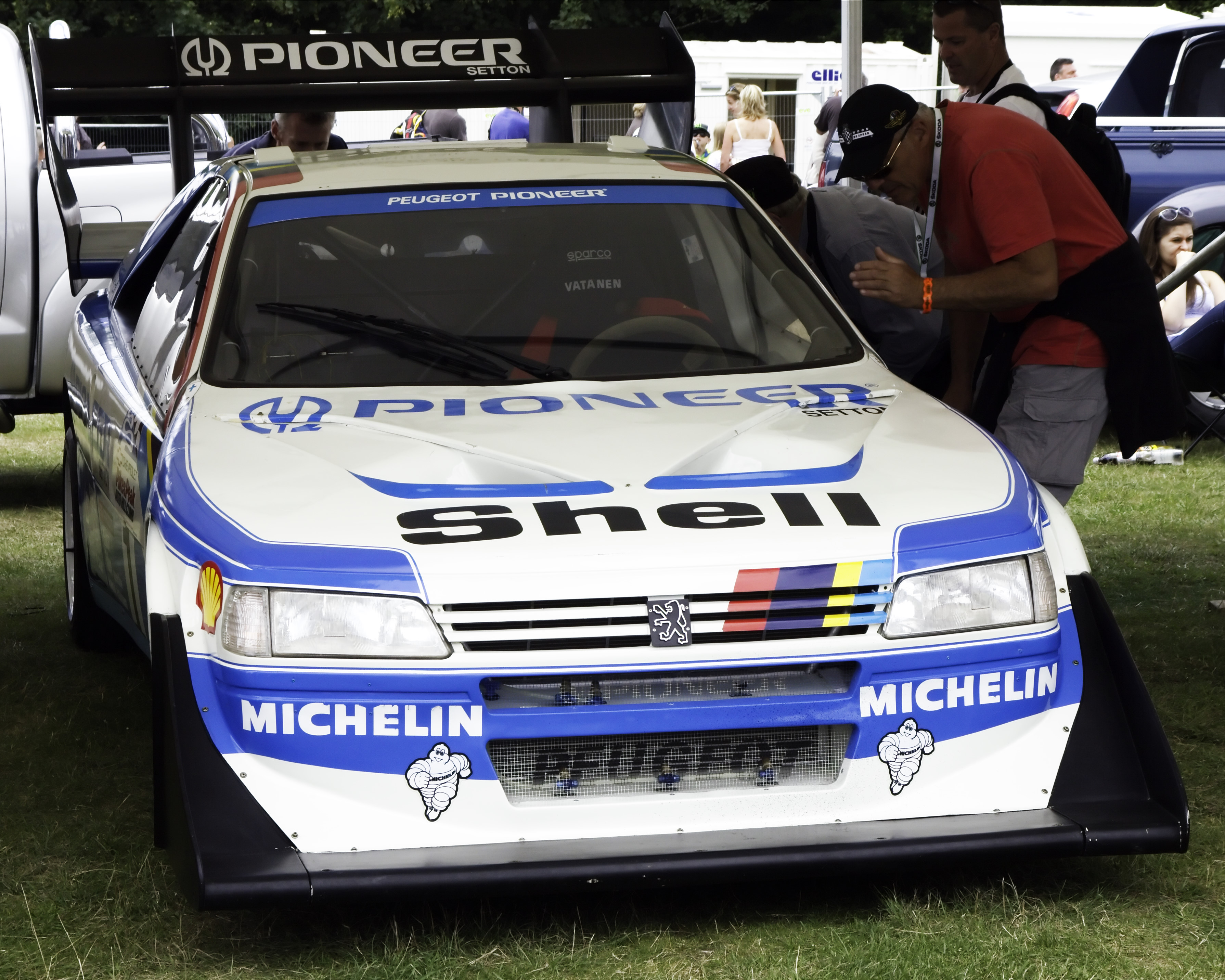 1988: Finnish driver Ari Vatanen set a new record in the Pikes Peak International Hillclimb Award-winning film 'Climb Dance' by Jean Louis Mourey of Ari Vatenen in this car on Pikes Peak